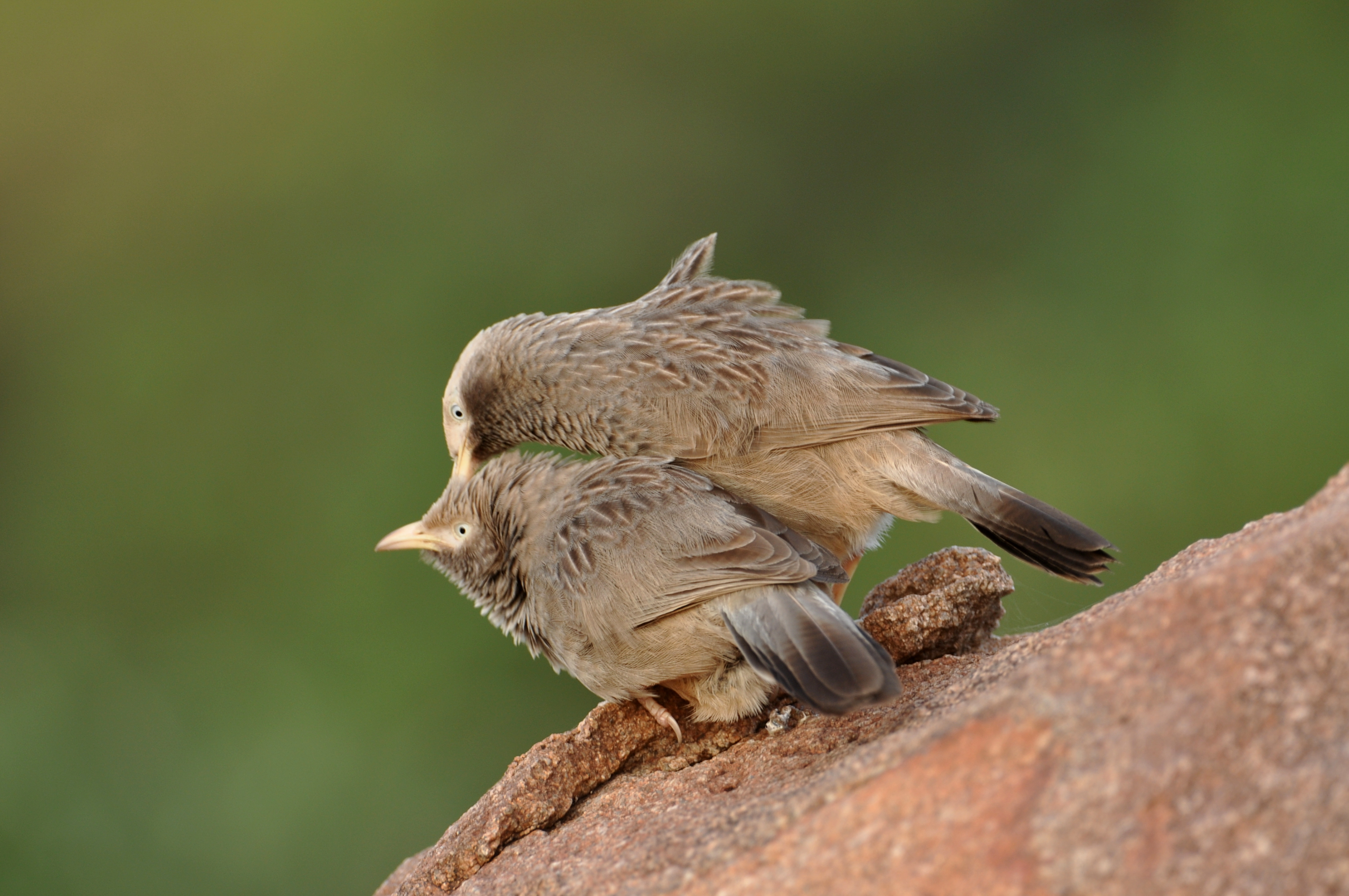 Yellow-billed Babblers allopreening in Daroji, Karnataka, India